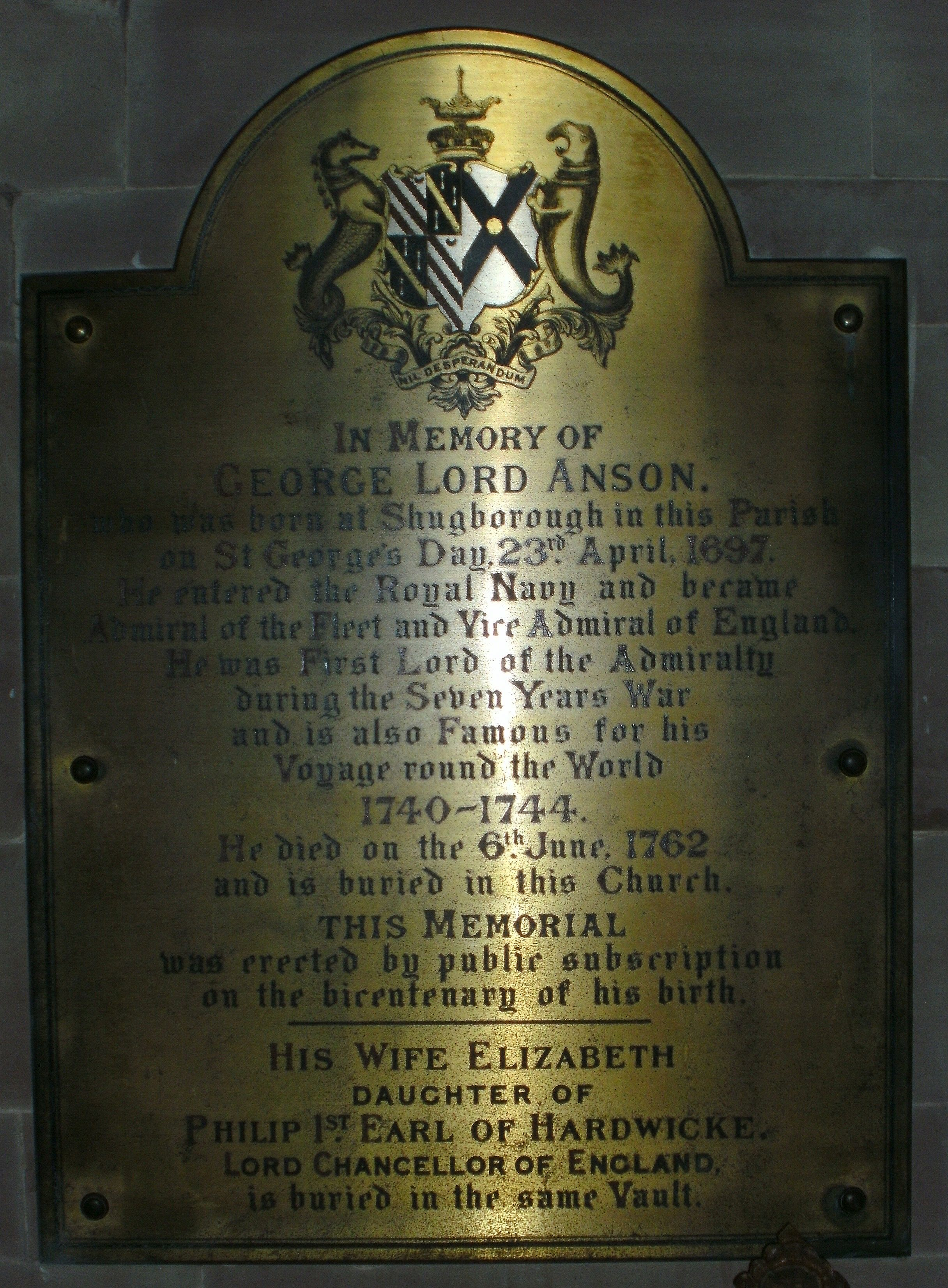 Colwich, Staffordshire - St Michael and All Angels Church - Admiral Lord Anson memorial